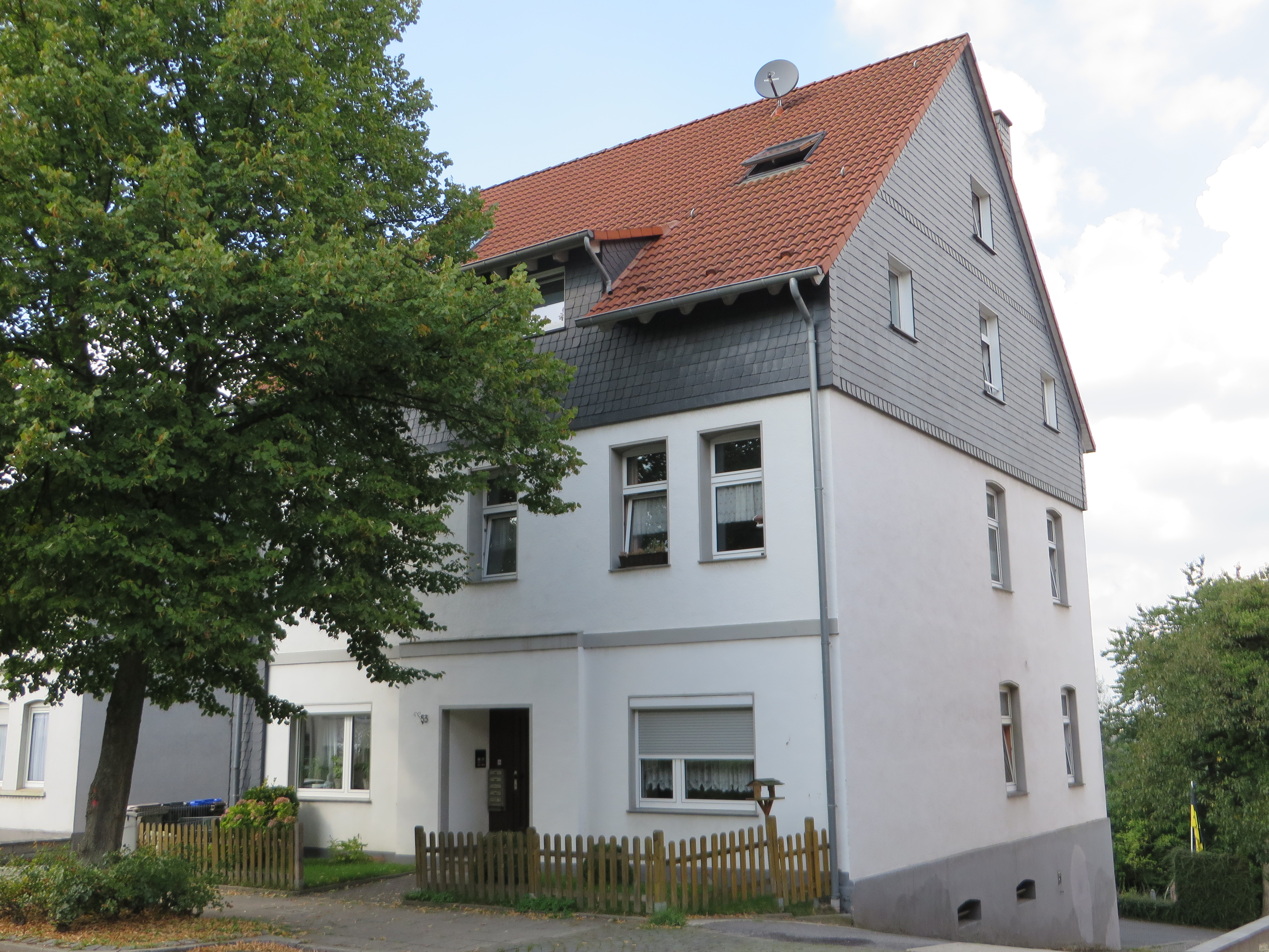 House Brunebecker Straße 53 in Witten, Germany